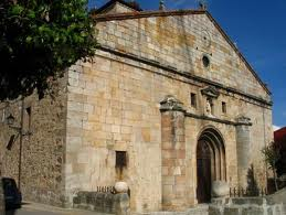 fachada iglesia san leonardo